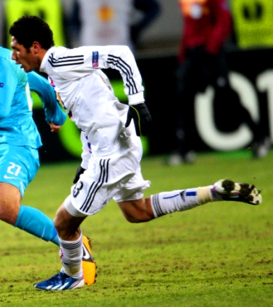 Mohamed Elneny